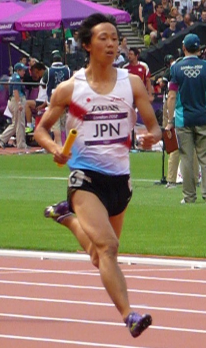 Athletics event — Olympic Park London 2012, 4x400 Metres Relay, Kei Takase